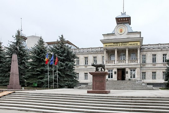 The Building of National Museum Of Arhaelogy and History of Moldova